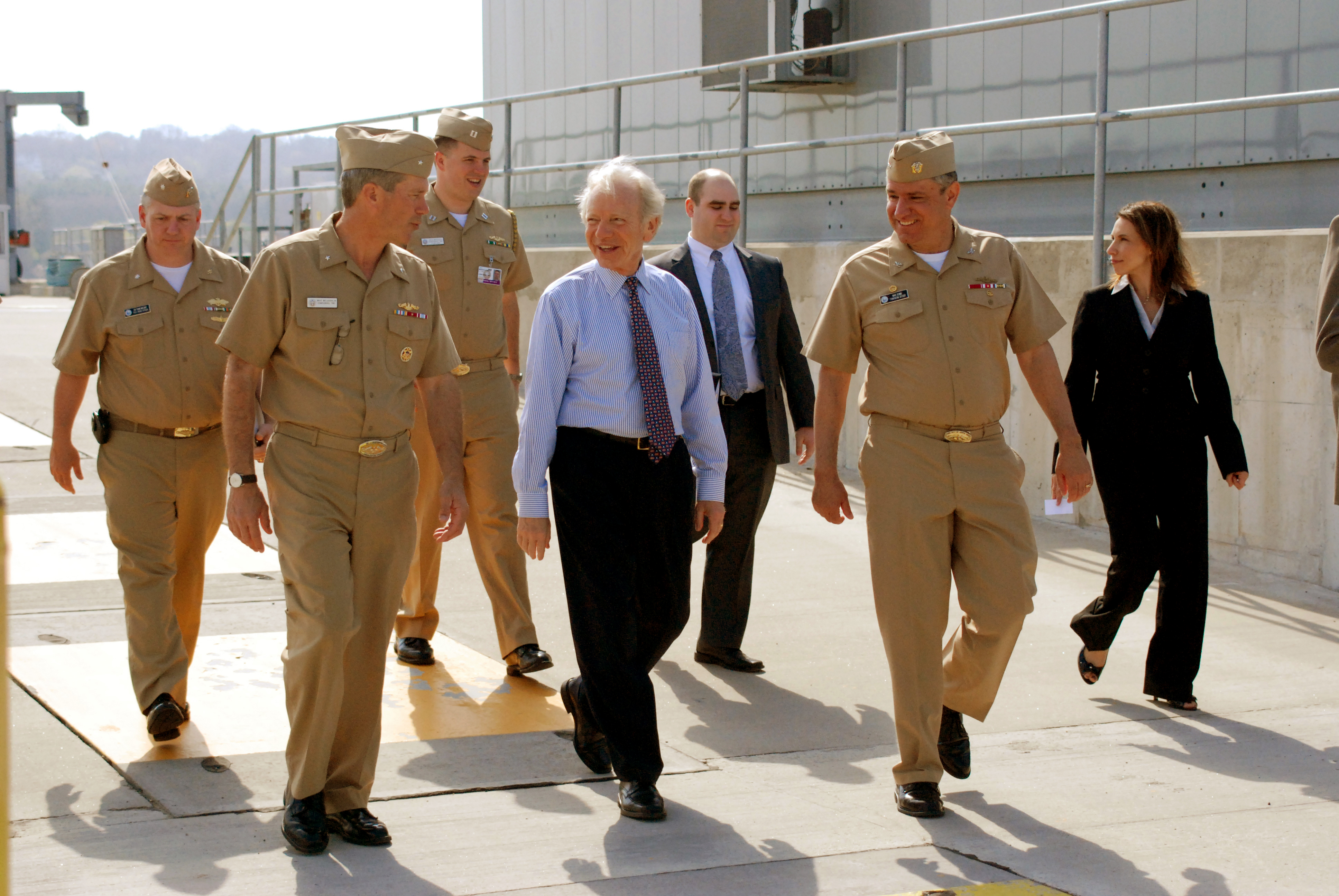 GROTON, Conn. (April 8, 2010) Senator Joe Lieberman, center, speaks with Rear Adm. Michael E. McLaughlin, left, commander of Submarine Group Two, and Capt. Marc W. Denno, commanding officer of Naval Submarine Base (SUBASE) New London, during a tour of the base. Lieberman was in Southeastern Connecticut to survey the damage from a recent flooding and meet with military members at SUBASE New London. (U.S. Navy photo by Electronics Technician 3rd Class Melissa Gavin/Released)